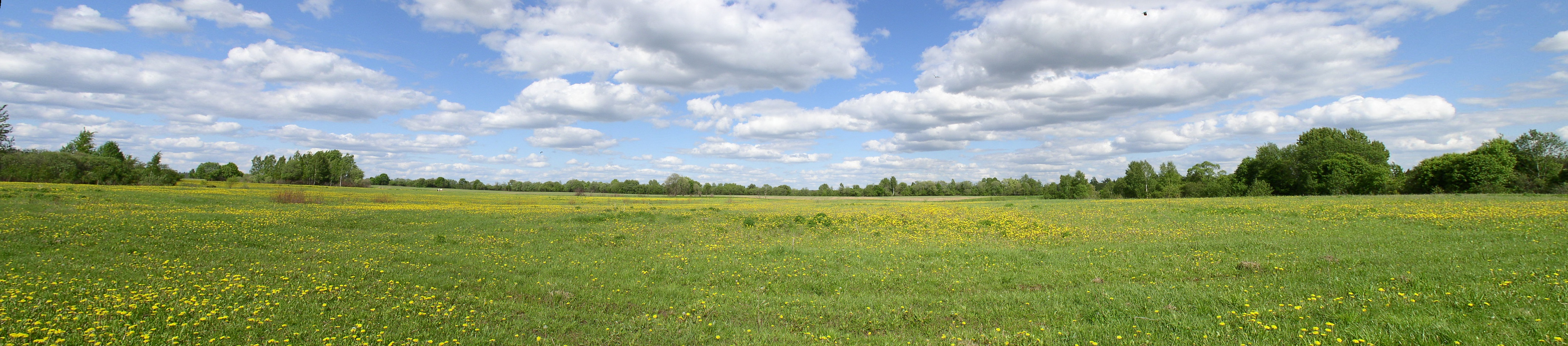 Field in Vitsebsk Province, Belarus.